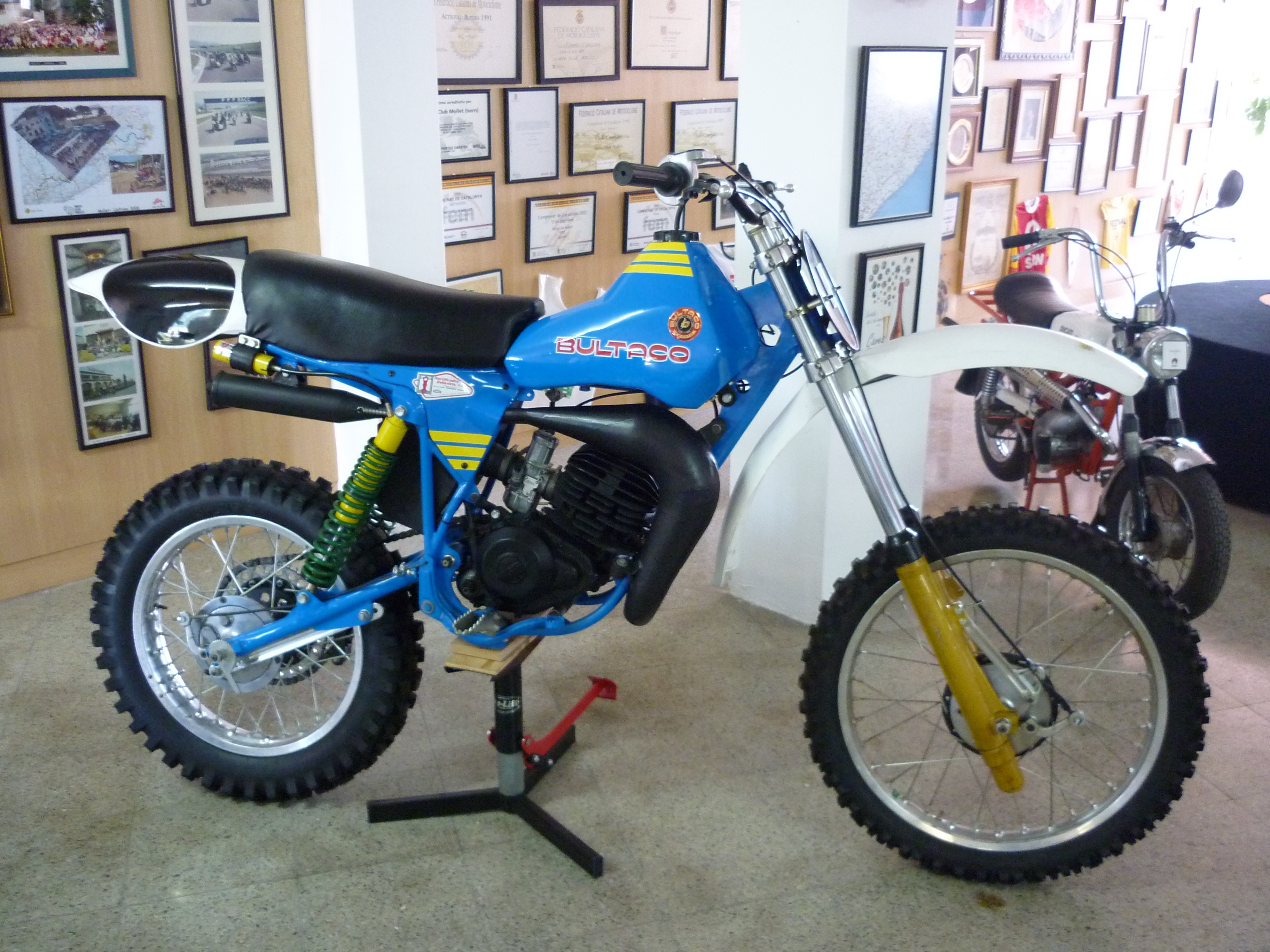 Bultaco Pursang MK15 125cc prototype (1980), did not sell because the company went into bankruptcy.Isern Motorcycle Museum, Mollet del Vallès (Catalonia).